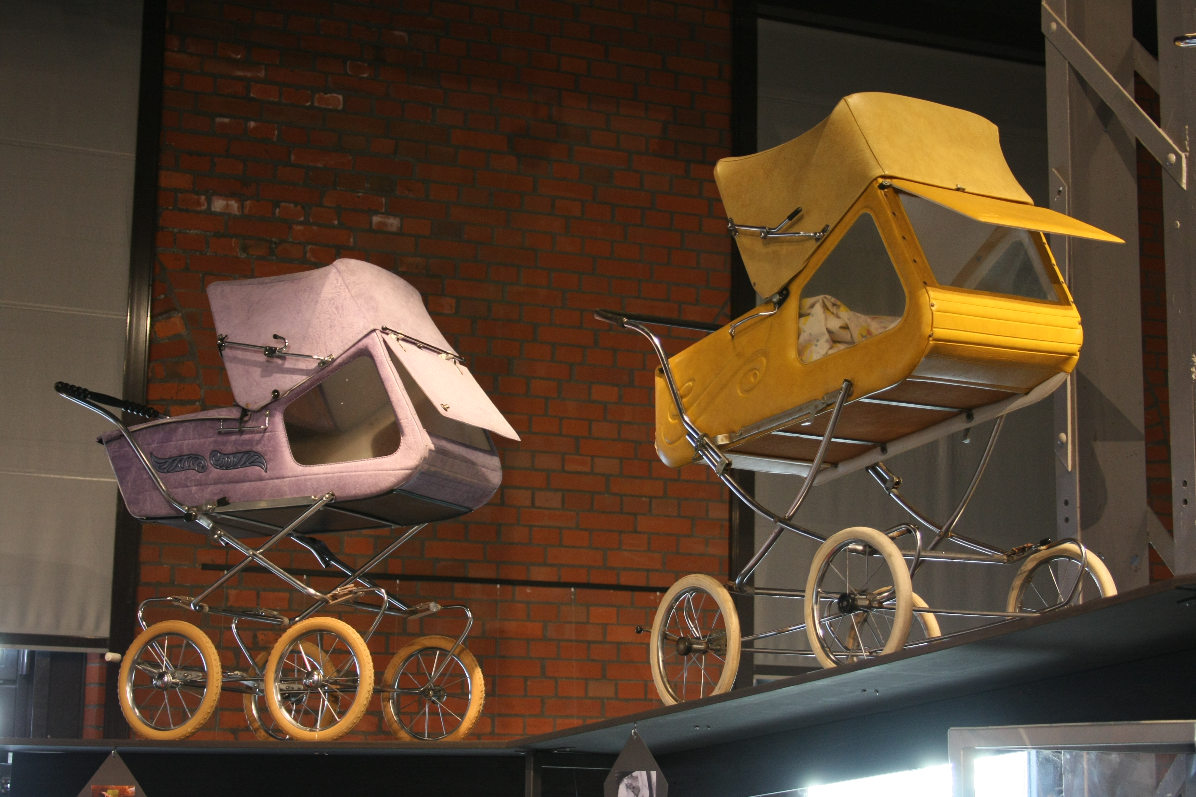 GDR Baby Carriages from ZEKIWA